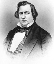 Herschel Vespasian Johnson